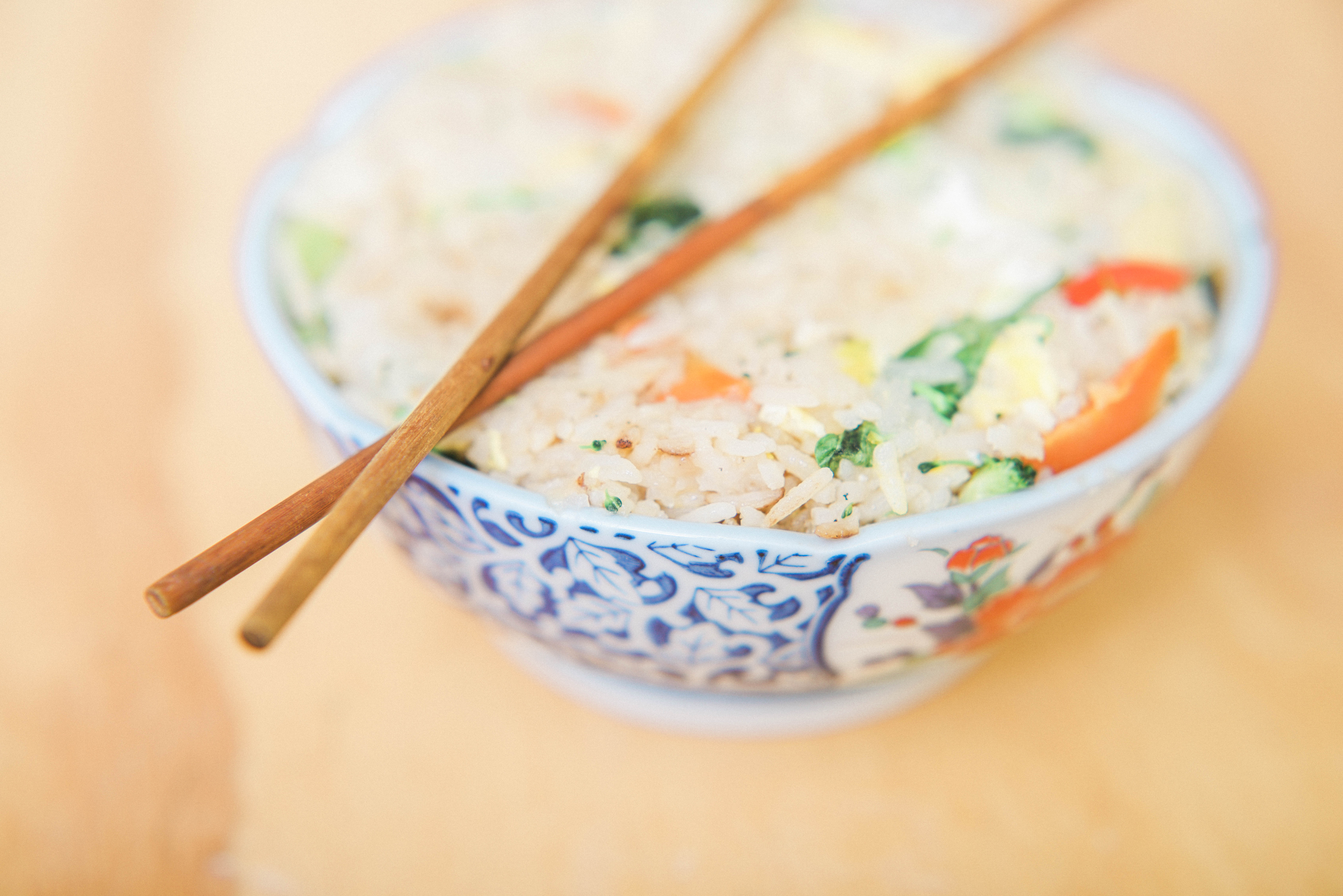 Thai Fried Rice with chopsticks on top.